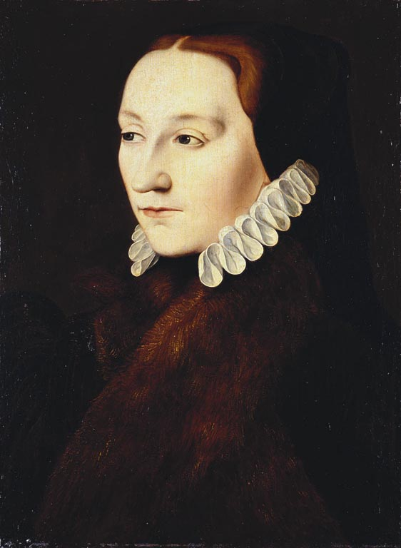 Portrait of a Woman, once tentatively identified as Lady Frances Brandon, mother of Lady Jane Grey. A portrait of a woman. Head and shoulders, facing half to the left, wearing a black dress with a fur wrap, a small non-continuous ruff and a black headdress. The artist of this work has not been identified. The sitter has been linked tentatively to Frances Brandon, Duchess of Suffolk. A portrait at Petworth (see Collins Baker, 'Catalogue of the Petworth Collection of Pictures', 1920) appears to represent the same woman on a larger scale and is inscribed with the date 1560 and the sitter's age (24). Another version of the portrait is in the Duke of Sutherland's collection.